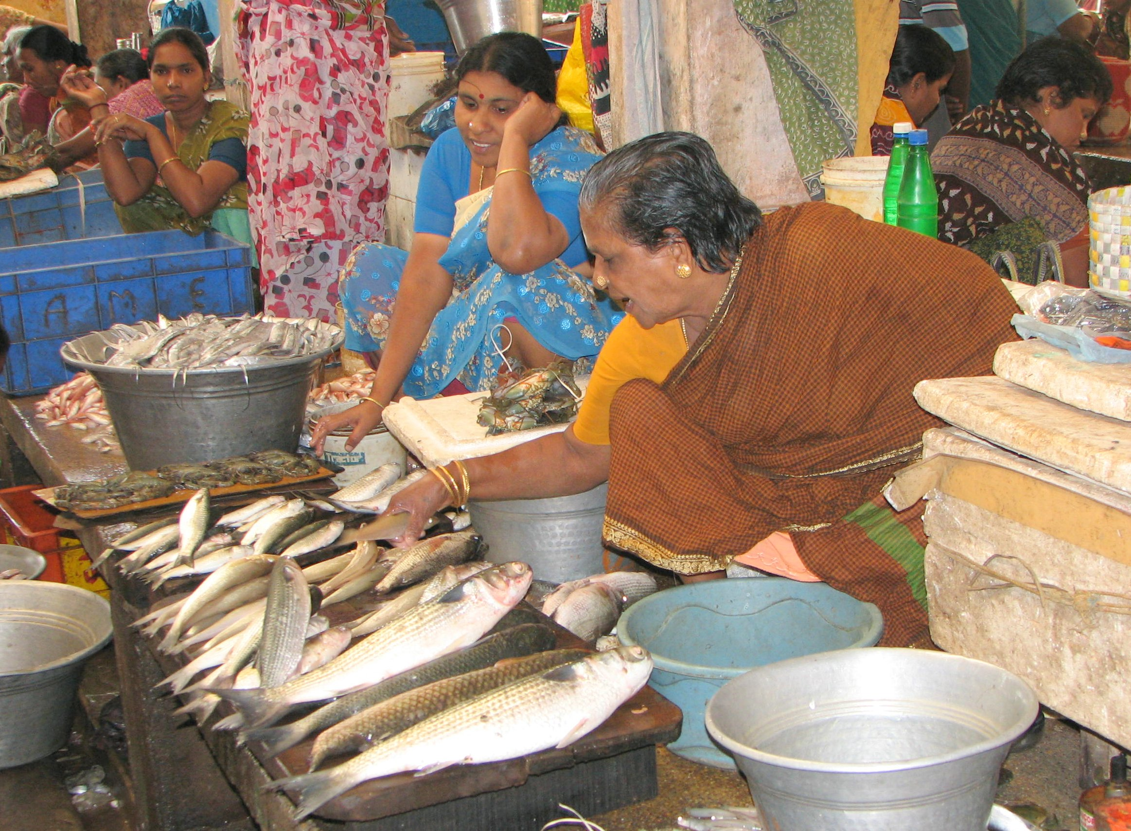 Puducherry fish market, India